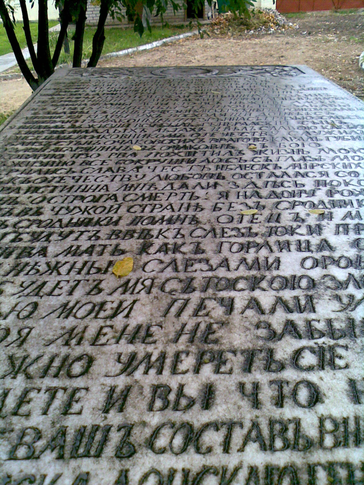 Potemkin, Grigori Alexandrovich